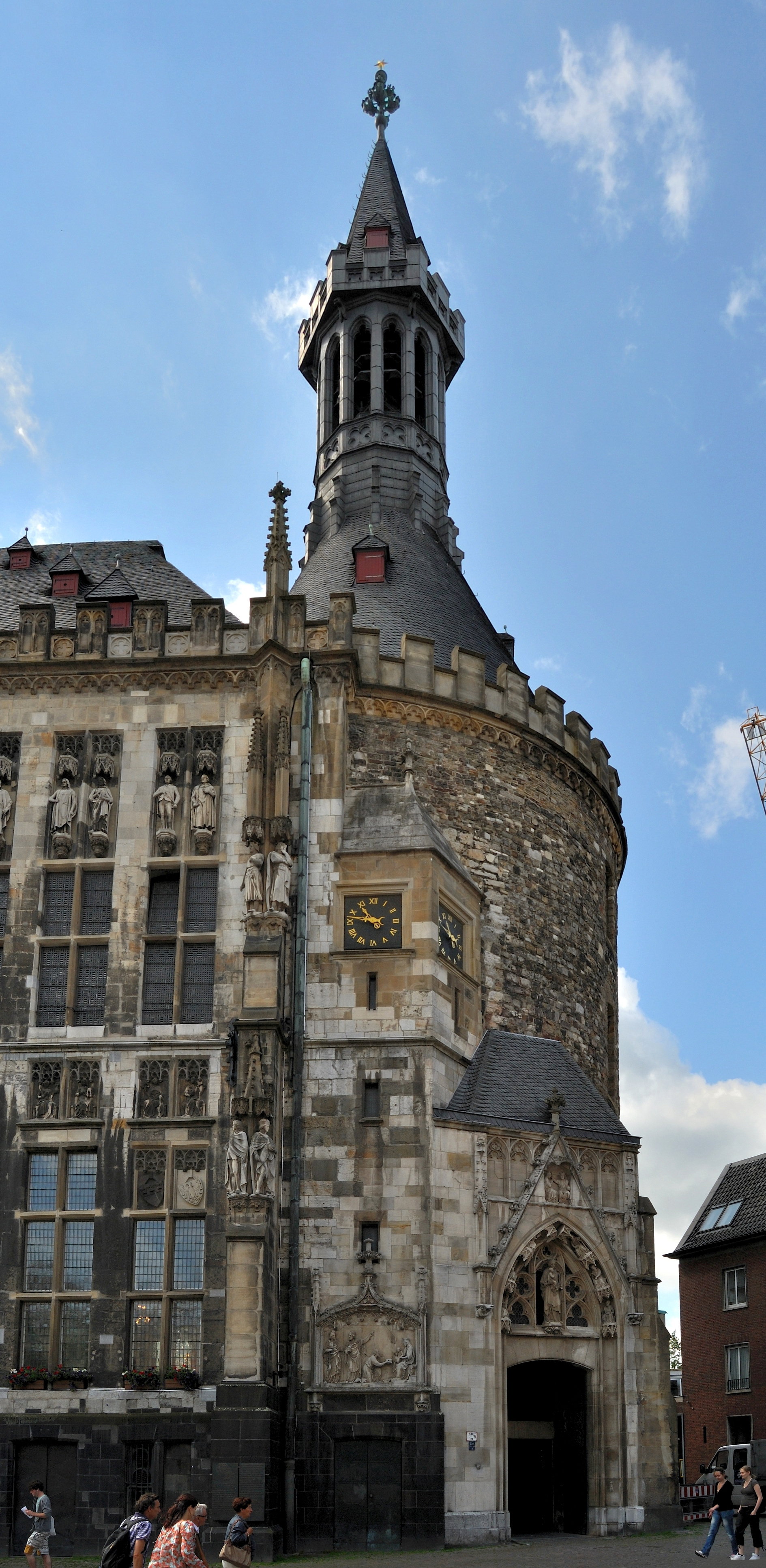 Aachen (North Rhine-Westphalia, Germany) – City Hall – west tower seen from northThis photograph was taken with a Nikon D3000